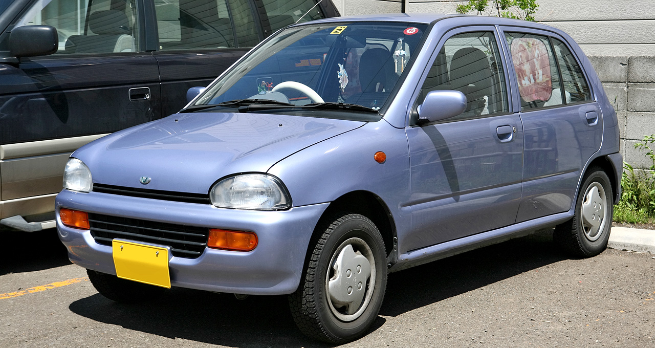 Subaru Vivio em 4WD, Good Design Award 1992.